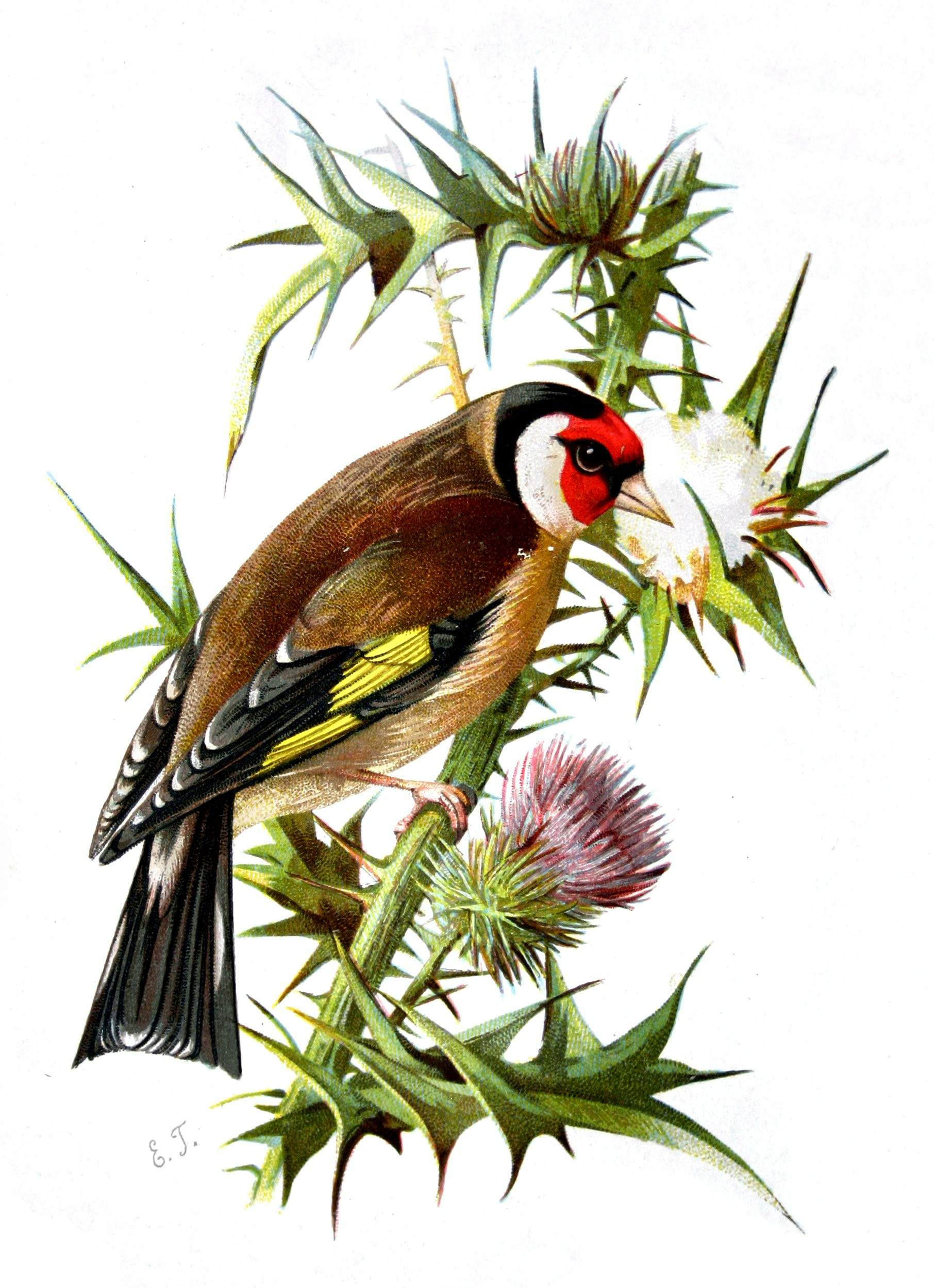 European Goldfinch (Carduelis carduelis)